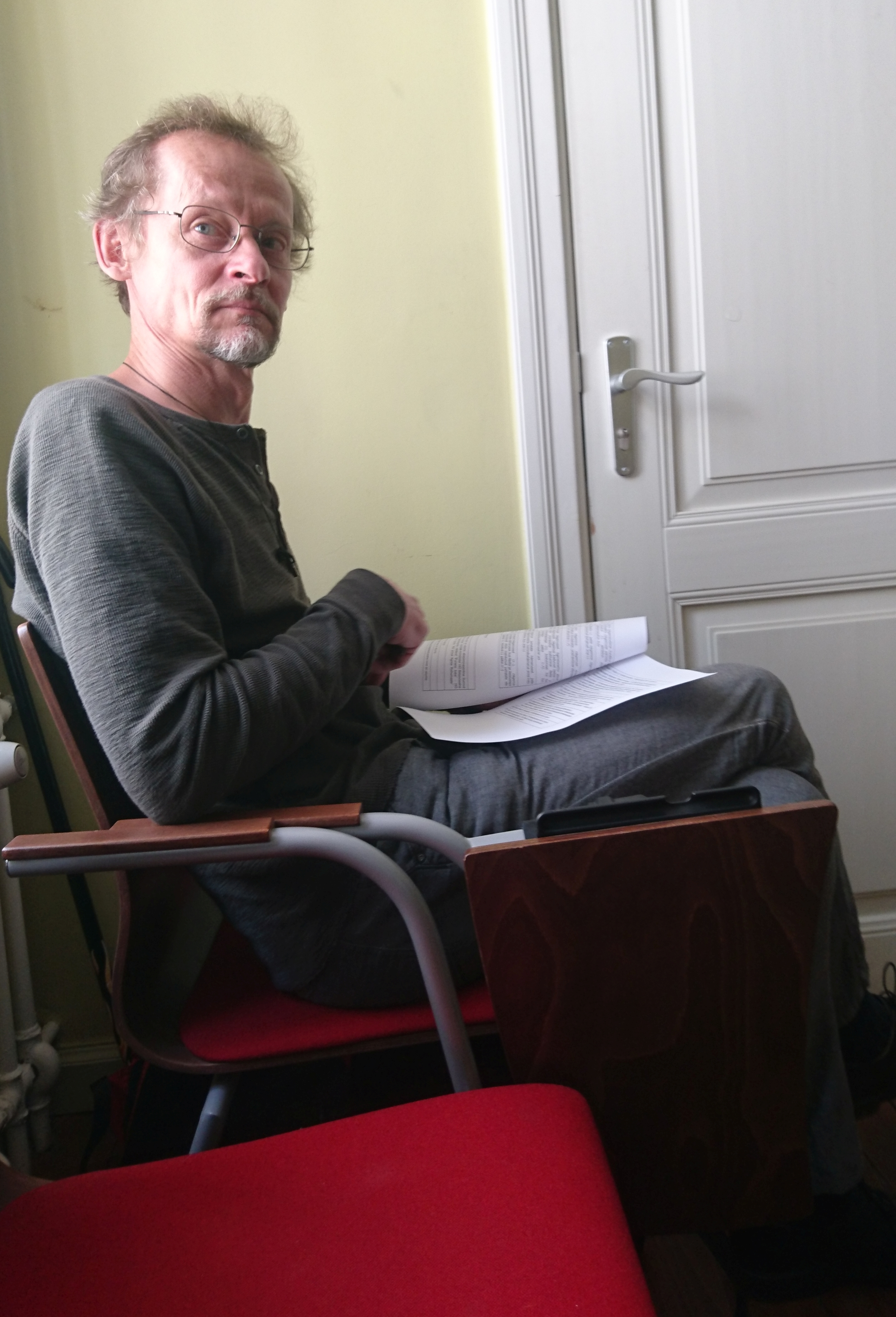 Estonian actor Enn Lillemets in University of Tartu, 1 June 2018.